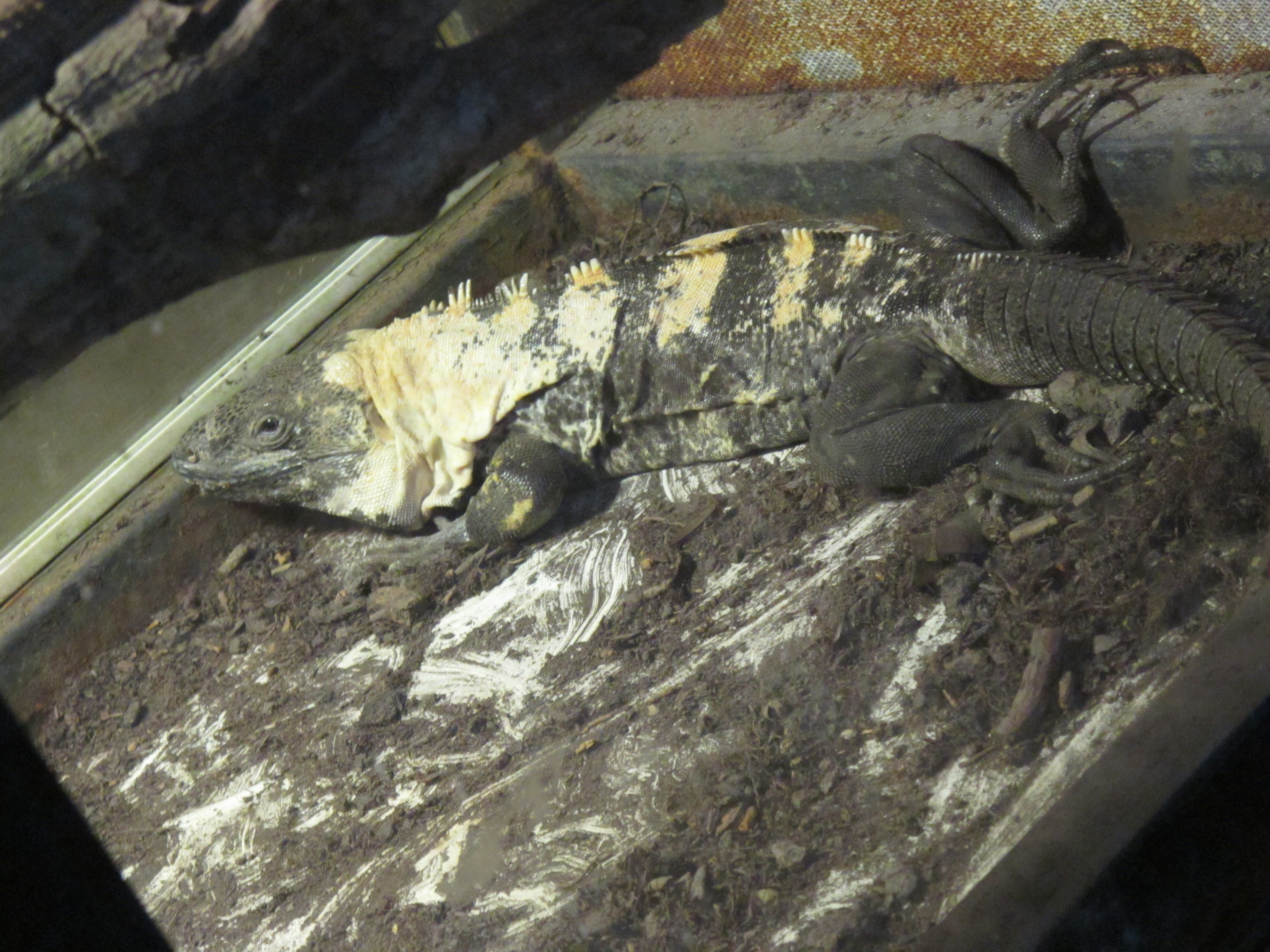 Hong Kong North District Flower Bird Insect And Fish Show